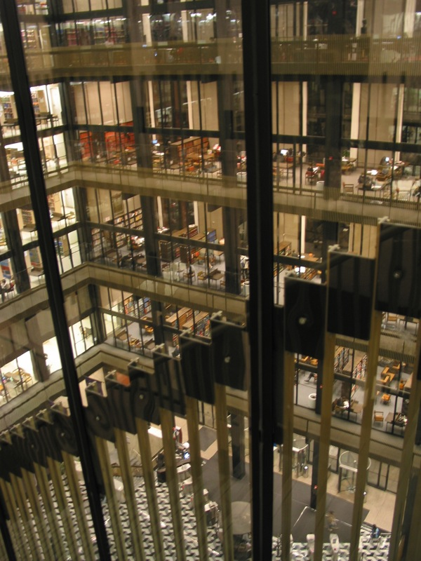 View of the inside of the Elmer Holmes Bobst Library of New York University